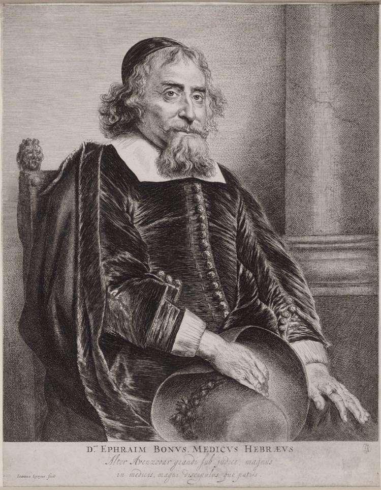 Portrait of Ephraim Bueno (1599-1665)